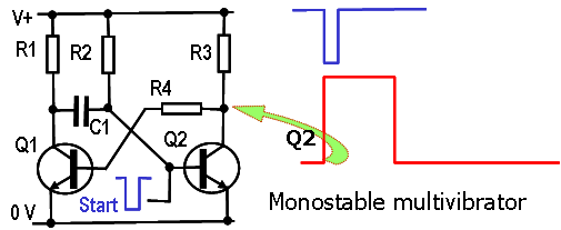 Monostable Multivibrator with output signal when triggered